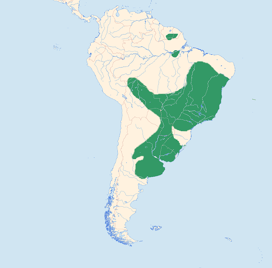 Range Map of Campo Flicker